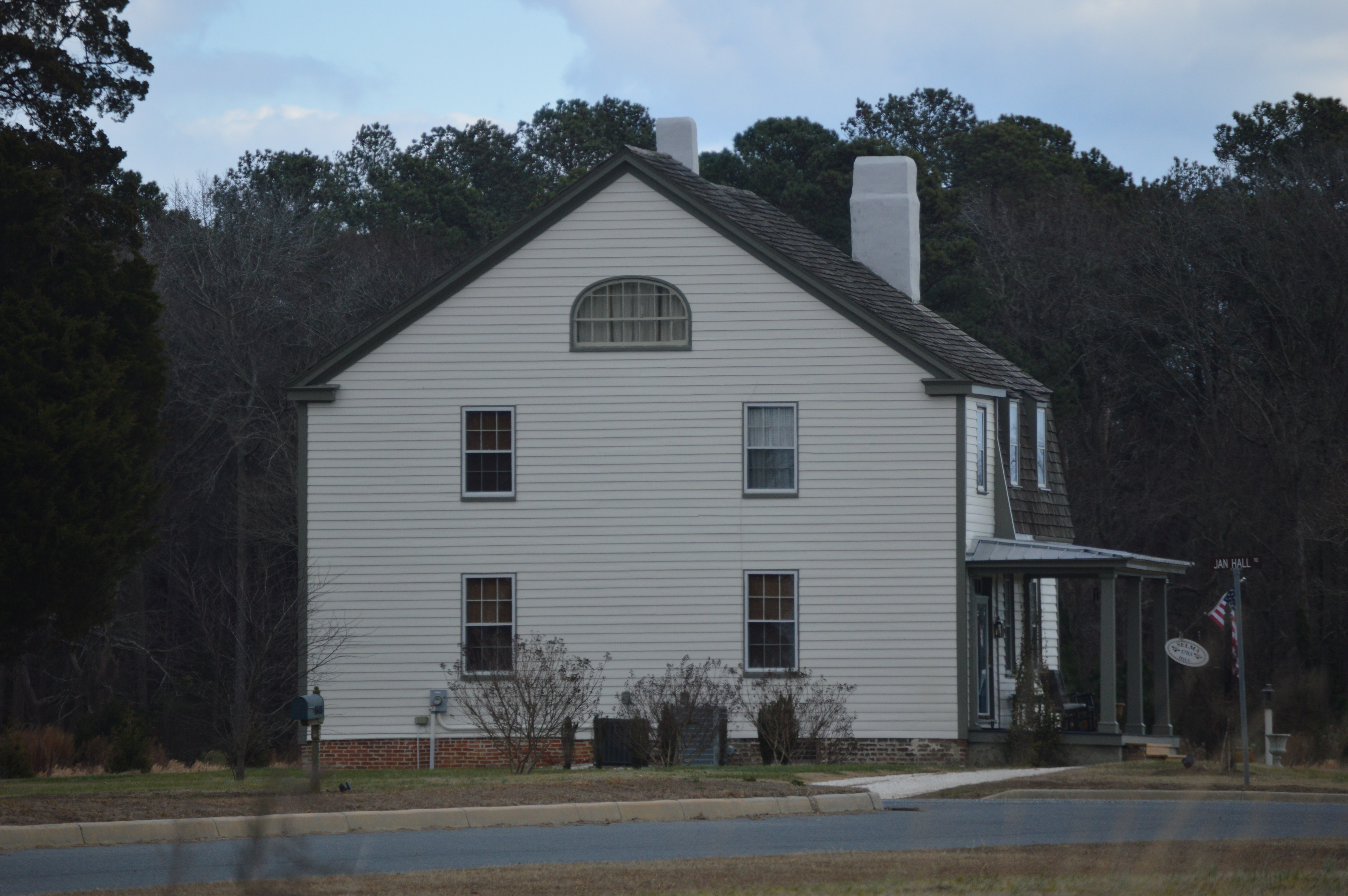 Western side of Selma, located on Courthouse Road at Eastville in Northampton County, Virginia, United States. Built in 1785, it is listed on the National Register of Historic Places.